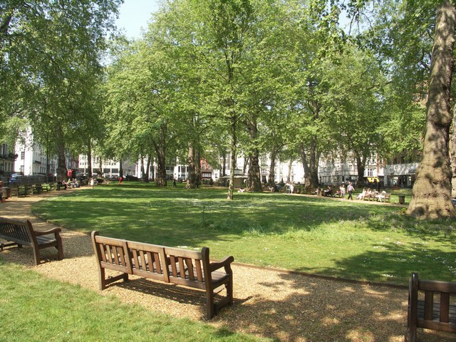 Berkeley Square, Mayfair This is the square featured in the famous war-time hit "A Nightingale Sang In Berkeley Square". It is still a pleasant resting place for workers and tourists.